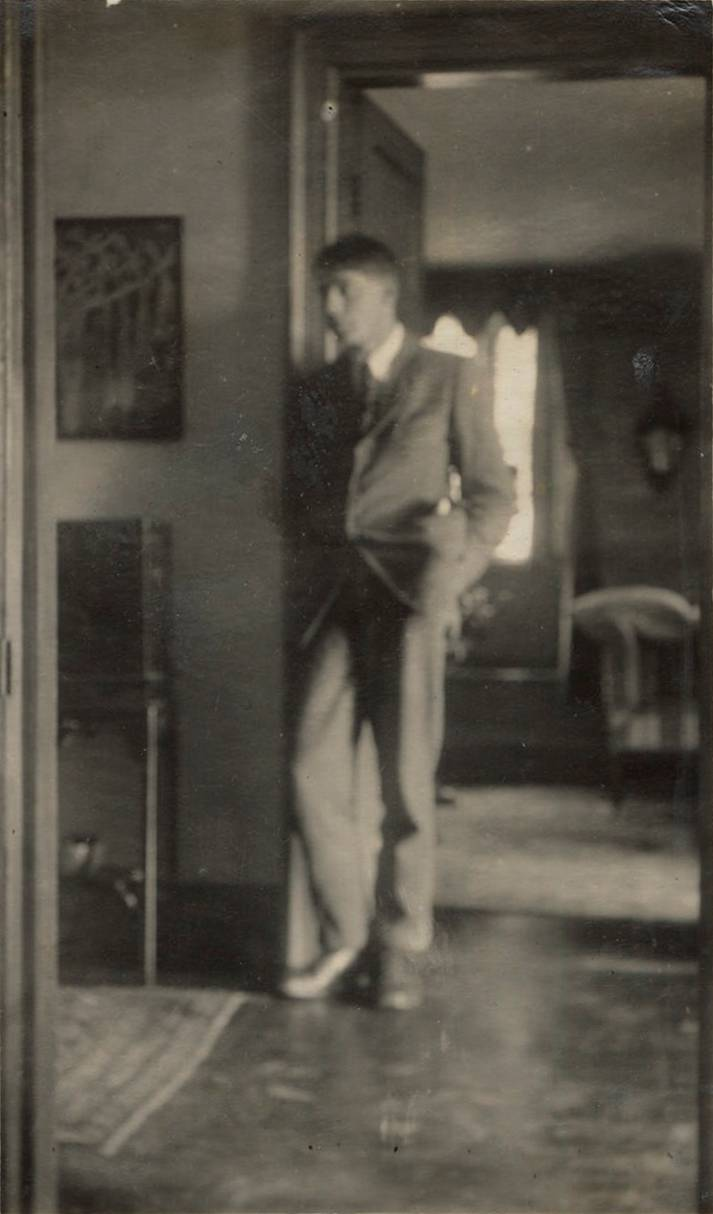 Lady Ottoline Morrell (1873-1938),vintage snapshot print/NPG Ax140447. David Garnett, 1920